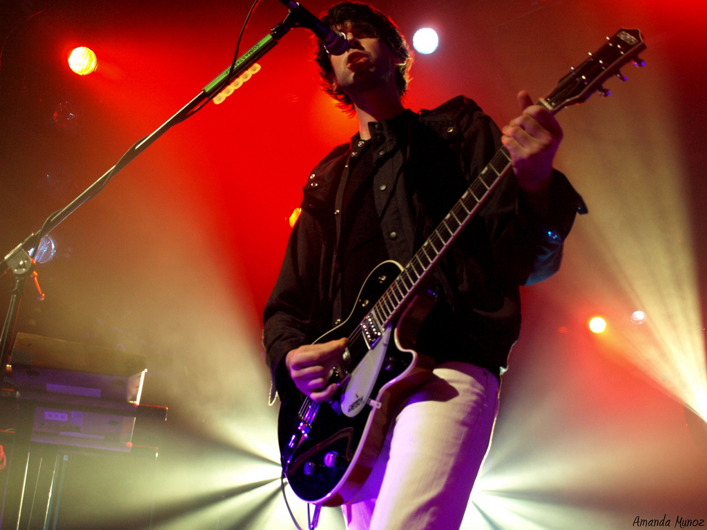 Ryland Blackington of Cobra Starship performing on October 11, 2008